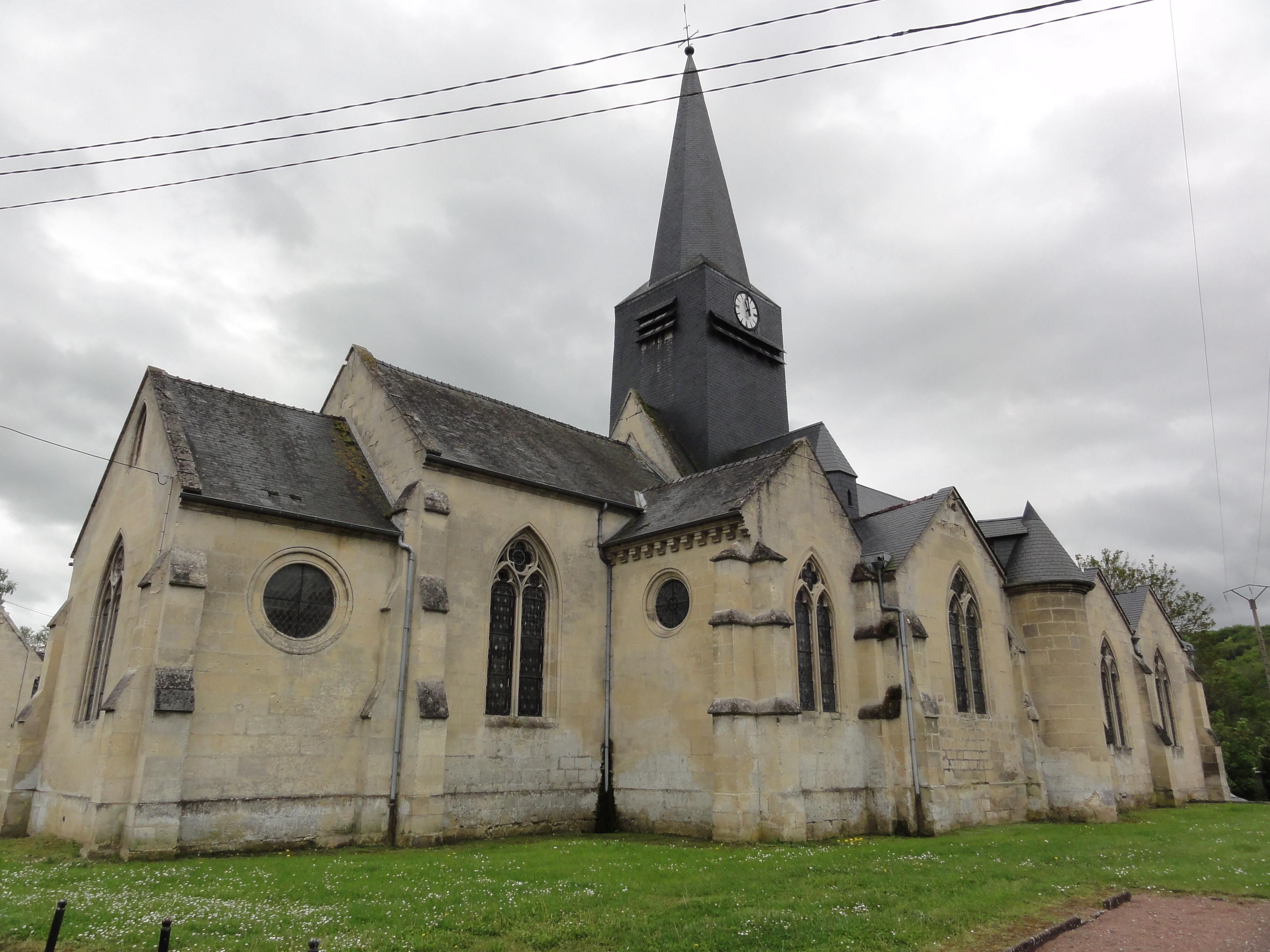 Fourdrain (Aisne) église de la Nativité-de-la -Sainte-Vierge